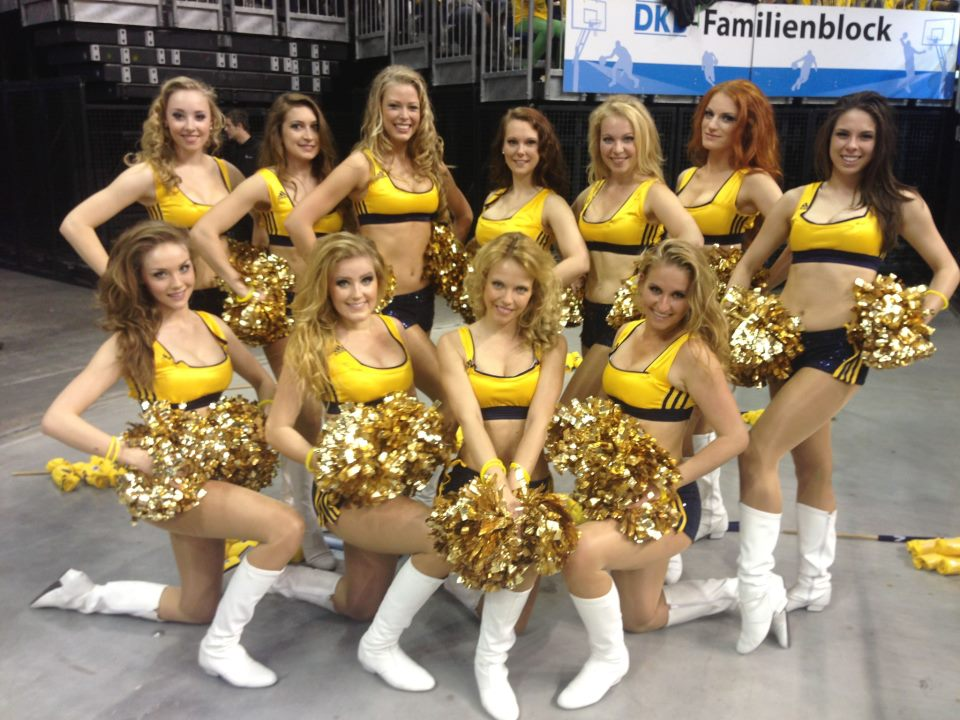 Alba Dancers / O2 World Berlin